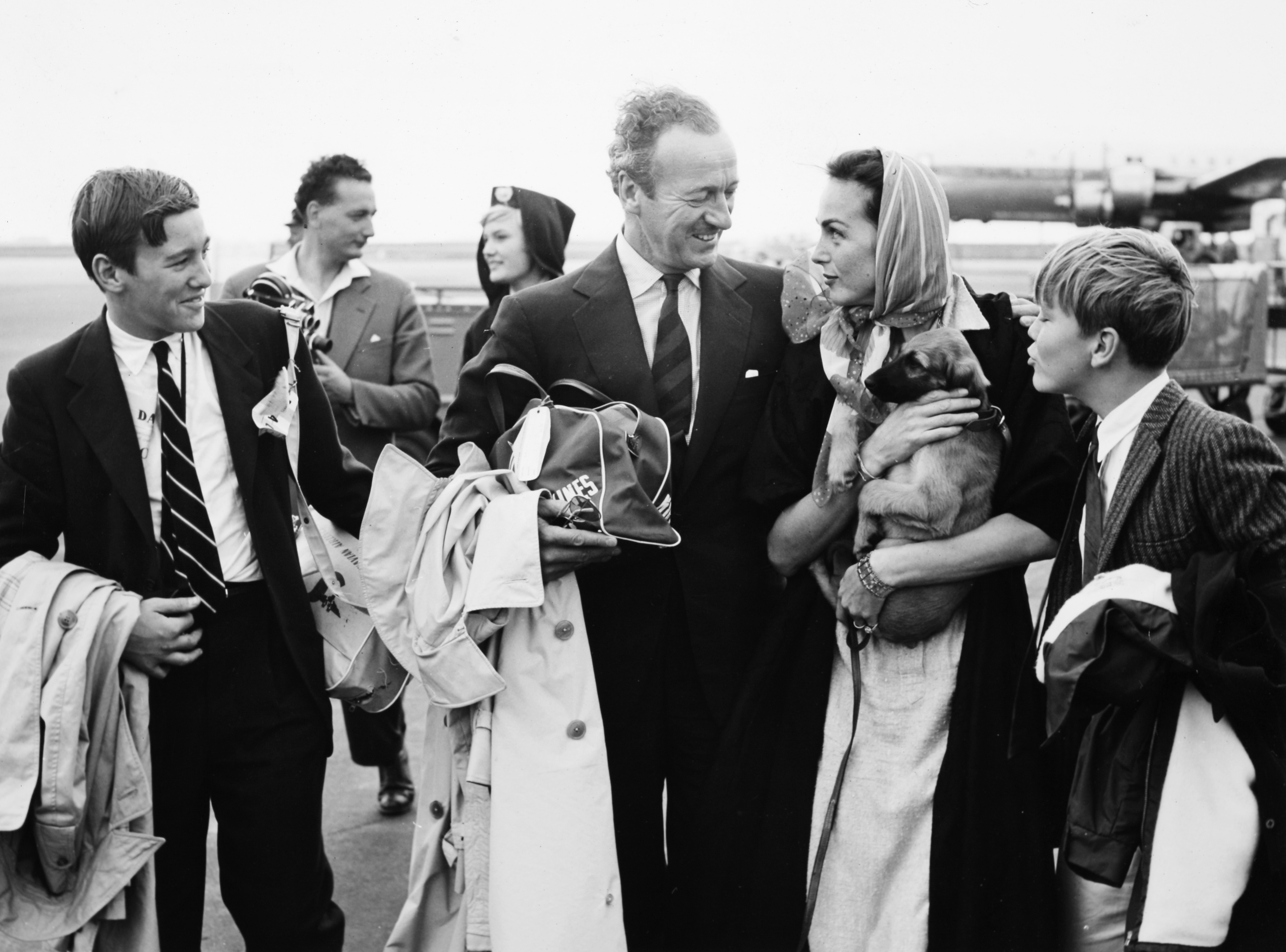 David Niven and Hjördis Genberg with family. 1958-08-05 at Kastrup Airport CPH, Copenhagen.